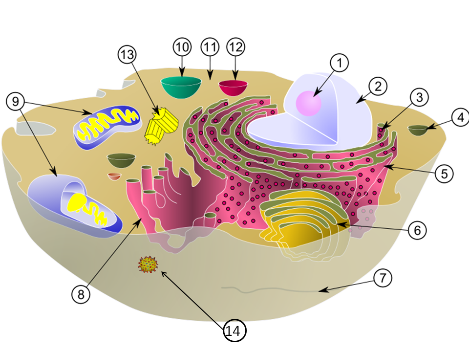 Diagram of a cell showing the relative size of a typical virus.